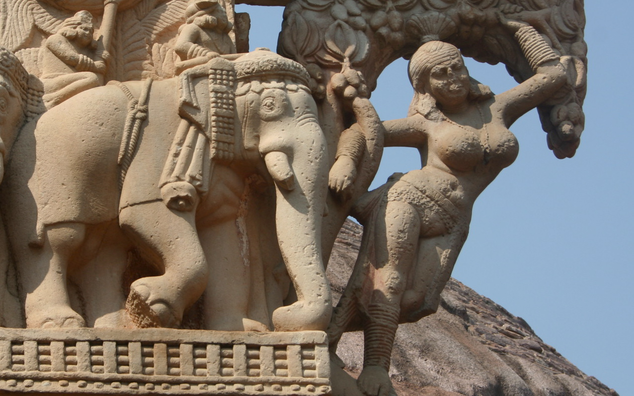 Salabjanjika - a mere touch from her can cause a tree to bear fruit. Sanchi Stupas.